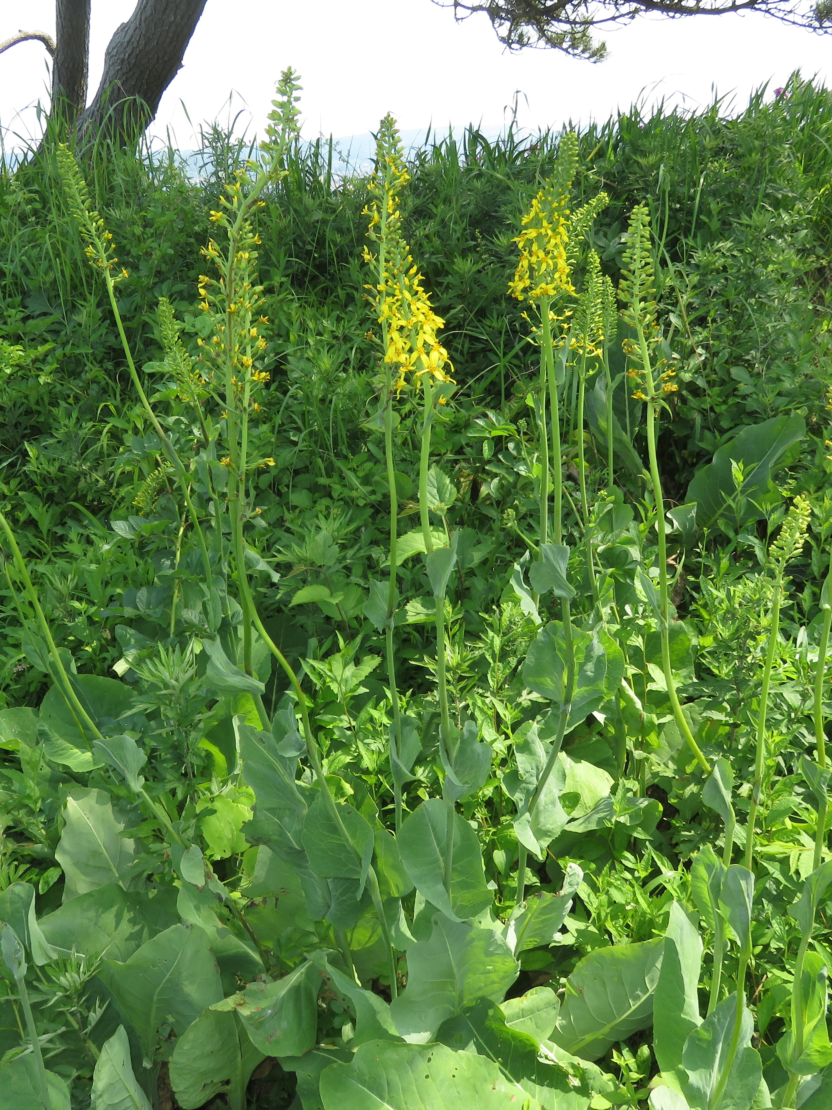 Ligularia fauriei, Tanesashi Coast, Aomori pref., Japan